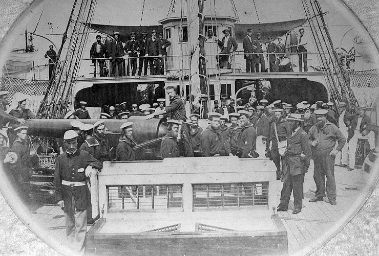 From U.S. Navy public domain Photo #: NH 58913 USS Agawam (1864-1867) Ship's officers and crewmen pose on deck, while she was serving on the James River, Virginia, August 1864. Commander Alexander C. Rhind, ship's Commanding Officer, is at the extreme right with his foot on the ladder. Standing next to him is Assistant Surgeon Herman P. Babcock. Lieutenant George Dewey is in the right center, wearing a straw hat, directly below the end of the davit. The pivot gun is one of the ship's two 100-pounder Parrot rifles. Note Marine in the left foreground. Collection of Surgeon Herman P. Babcock, USN. Donated by his son, George R. Babcock, 1939. U.S. Naval Historical Center Photograph.